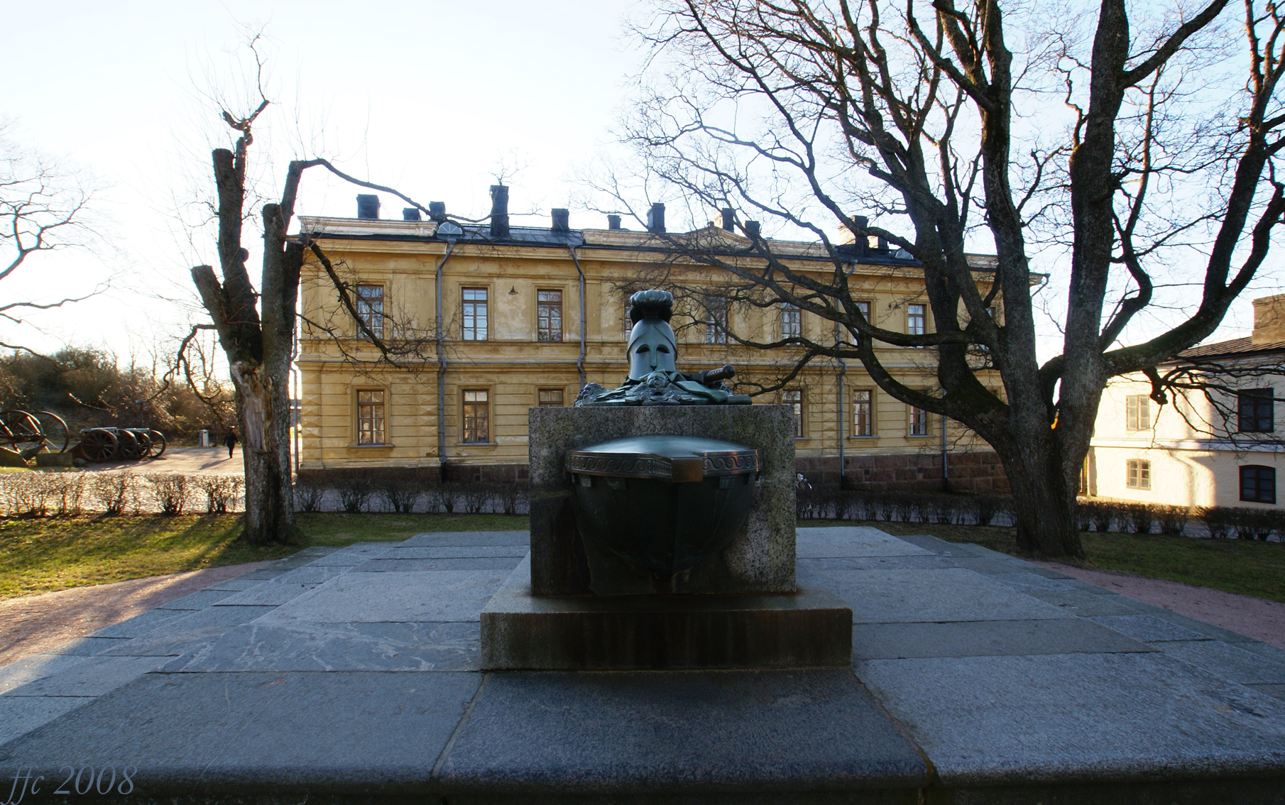 Field Marshal Augustin Ehrensvärd's grave at Suomenlinna.